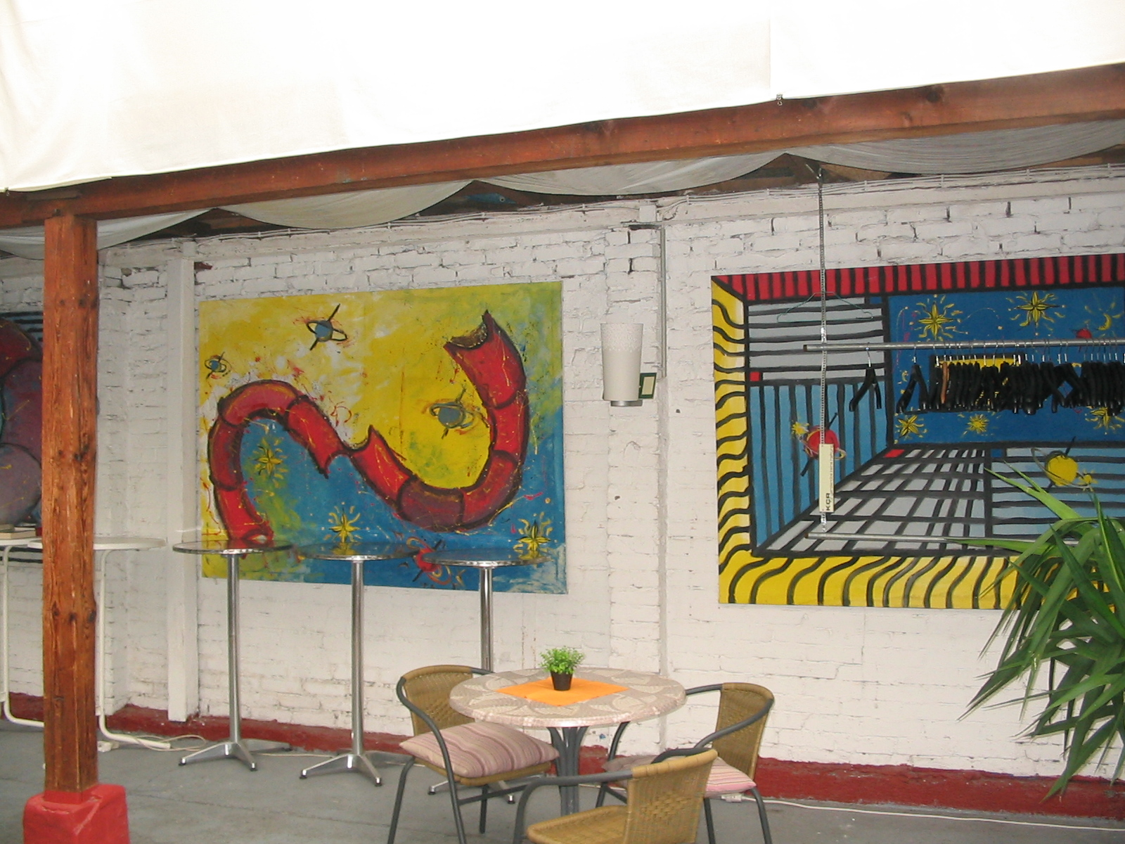 paintings at gay and lesbian center Kommunikationscentrum Ruhr (Communication Center Ruhr, KCR) at courtyard of cultural center Langer August in Dortmund